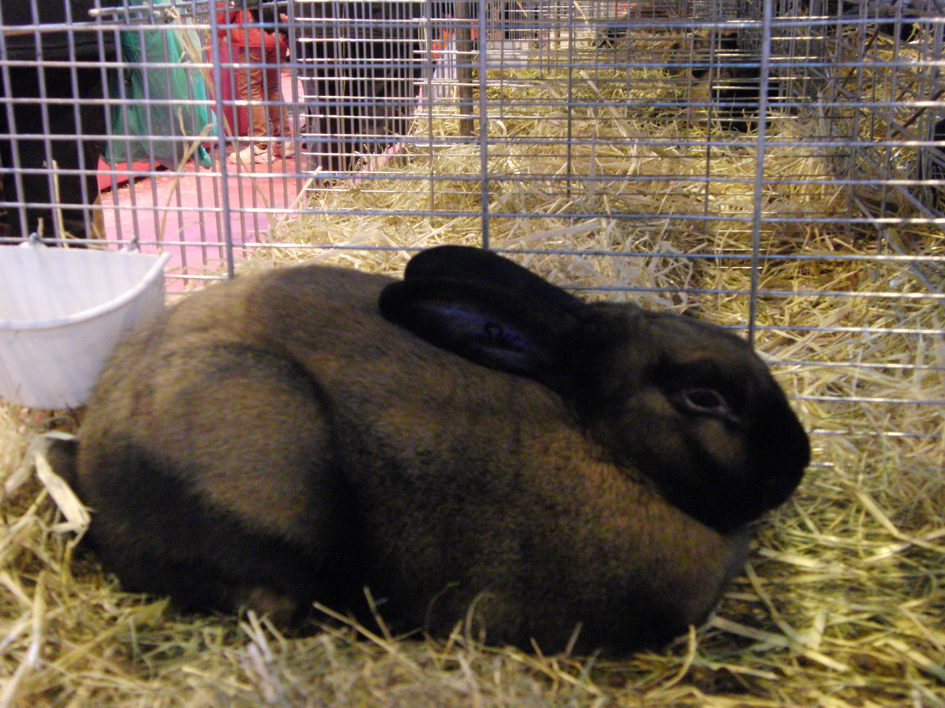 Thüringer rabbit - Paris International Agricultural Show 2014, France